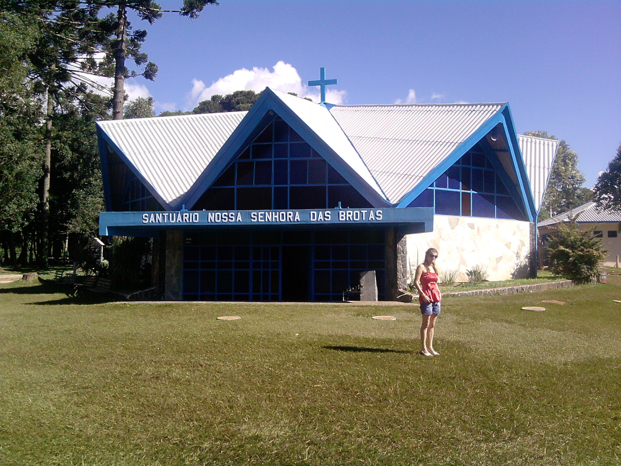 Shrine of Our Lady of Brotas.